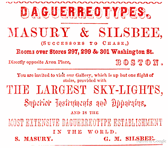 Ad for Masury & Silsbee, Daguerreotype establishment